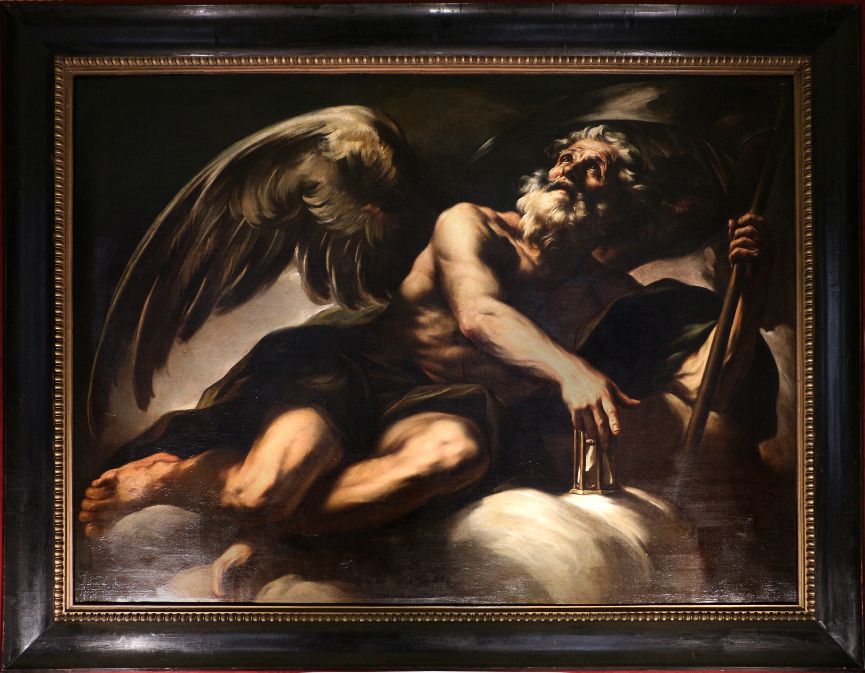 Palazzo Buonaccorsi (Macerata) - Old Masters